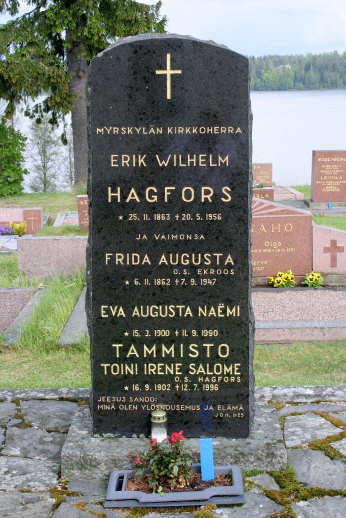 Minister Erik Hagforses thomb stone As the system of the annex parishes was abolished the parish of Myrskyla became independent of the bishop of Porvoo again. One of the longest serving ministers in Myrskyla was Erik Wilhelm Hagfors, who began his service in Myrskyla already in 1914.